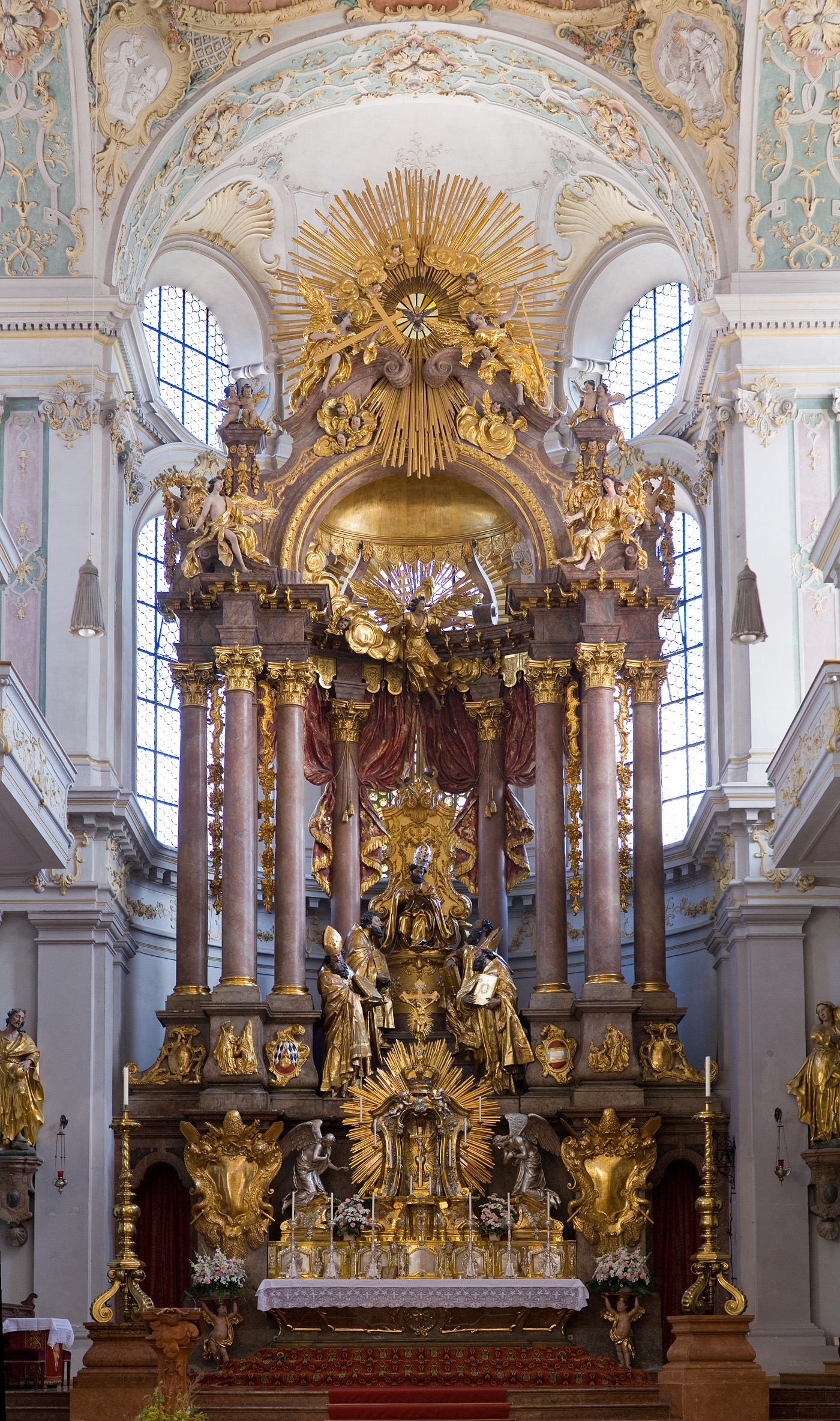 The altar of Peterskirche (St Peter's Church). This is a 4 segment vertical panorama taken by myself with a Canon 5D and 24-105mm f/4L IS lens at 85mm.